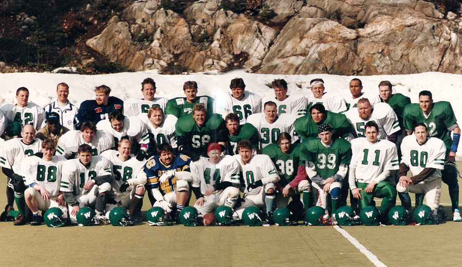 Team picture of norwegian am. football team Arendal Wildcats, taken 1996